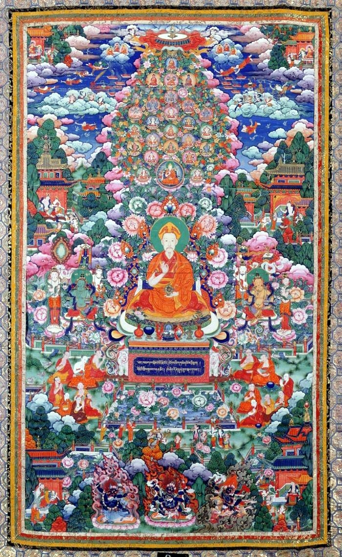 The Qianlong Emperor in Lama Dress, Puning si, c. 1758, by an anonymous artist. Thangka, colours on cloth. The text under Qianlong is wrote in tibetan scipt. The Palace Museum, Beijing.